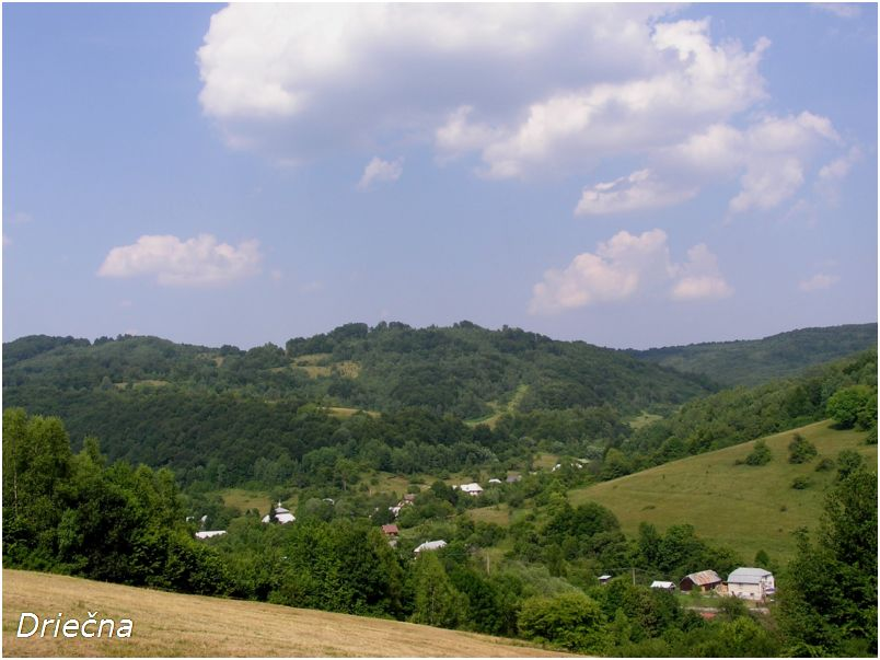 Description Celkový pohľad Date25 June 2006SourceOwn workAuthorAndrej BelovežčíkPermission (Reusing this file) ano Celkový pohľad